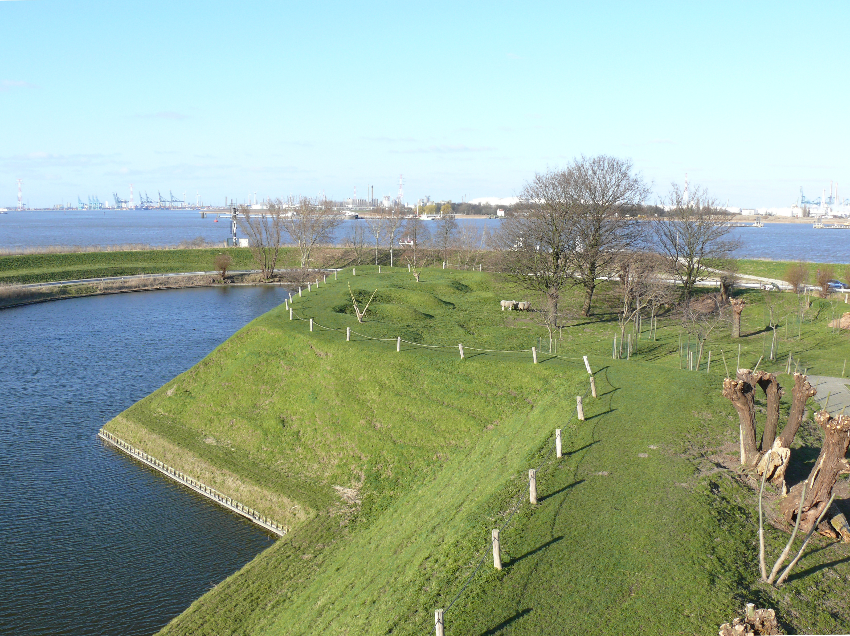 Fort Liefkenshoek, a fortification on the left bank of the Scheldt near Antwerp.